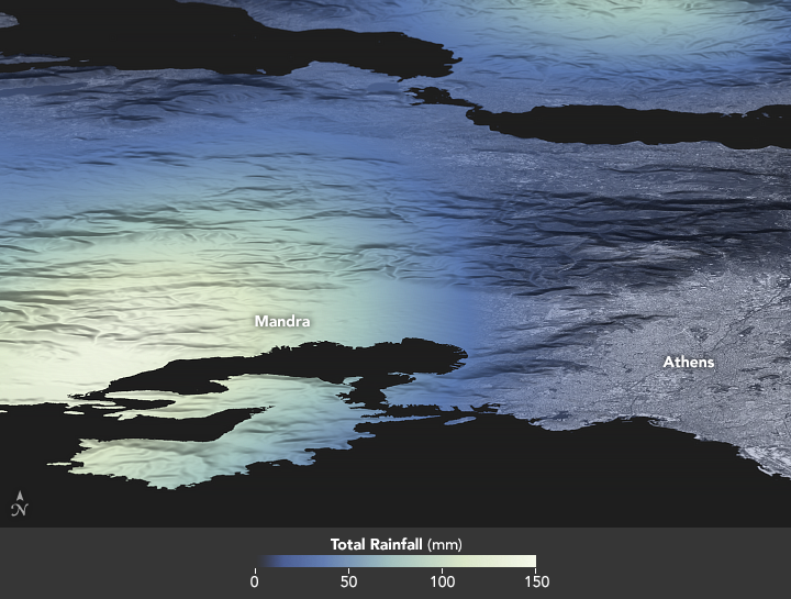 Late on November 14, 2017, a slow-moving weather system in the Mediterranean brought torrential rain and flash floods to Greece. Among the hardest hit places was Mandra, a town west of Athens. Floods there left hundreds of people homeless and claimed several lives. This three-dimensional map shows satellite-based measurements of the rain that fell in the area from November 14 to 16. The data come from the Integrated Multi-Satellite Retrievals for GPM (IMERG), a product of the Global Precipitation Measurement mission. The precipitation data was draped over terrain data from the Advanced Spaceborne Thermal Emission and Reflection Radiometer (ASTER). The GPM satellite is the core of a rainfall observatory that includes measurements from NASA, the Japan Aerospace Exploration Agency, and five other national and international partners. These rainfall totals are regional, remotely-sensed estimates, and local amounts can be significantly higher when measured from the ground.